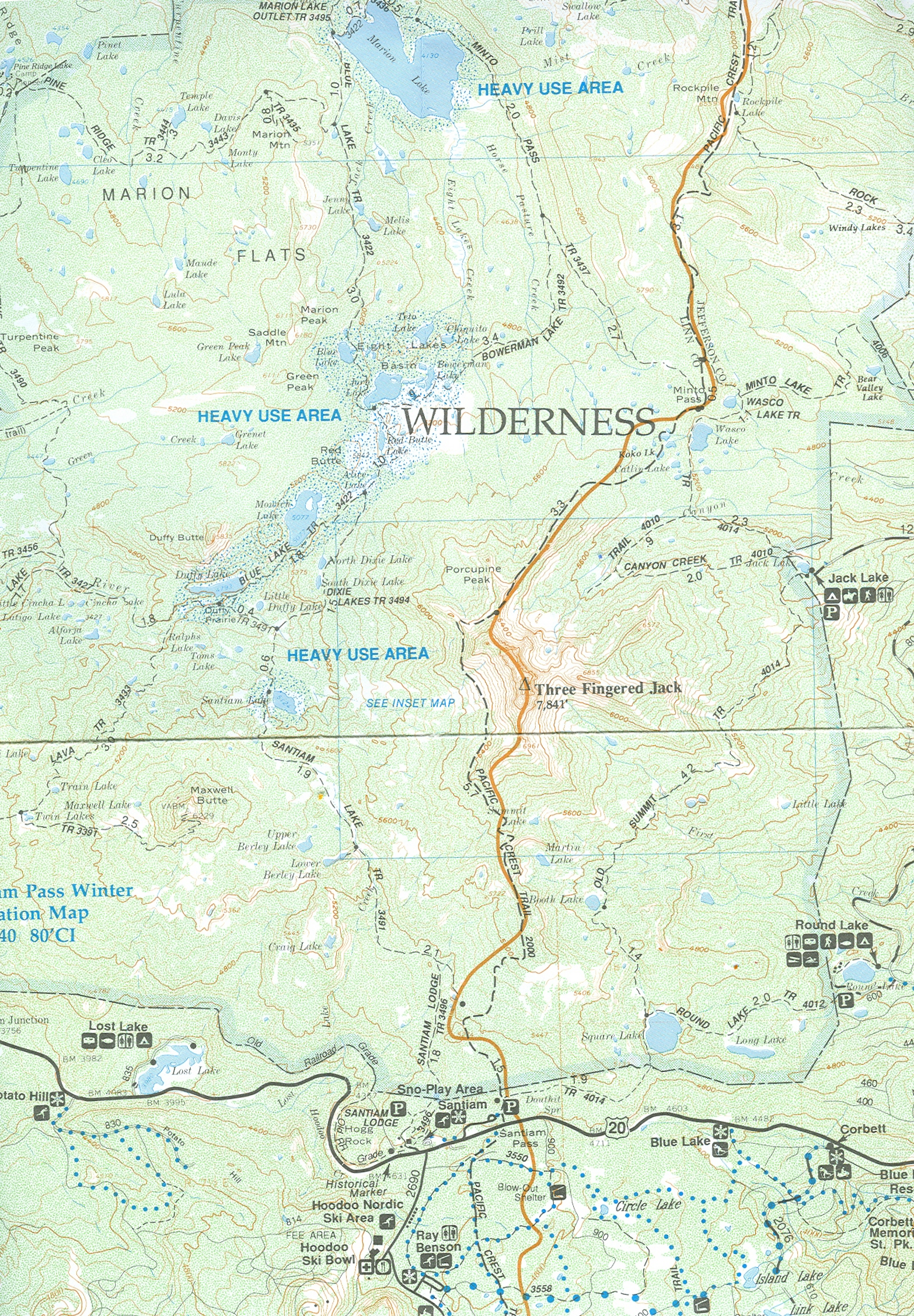 Map of area around Three Fingered Jack